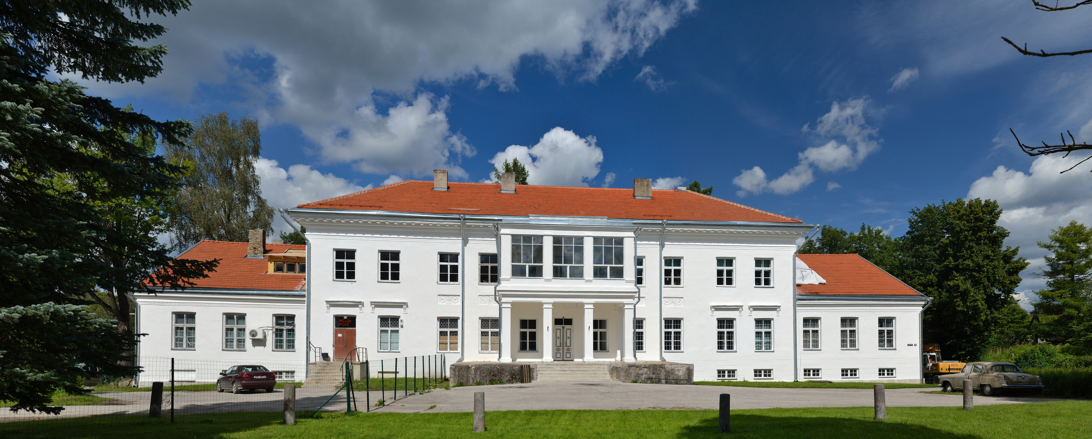 Kohila manor main building